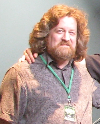 Russell Brower after performance at Video Games Live in Glasgow